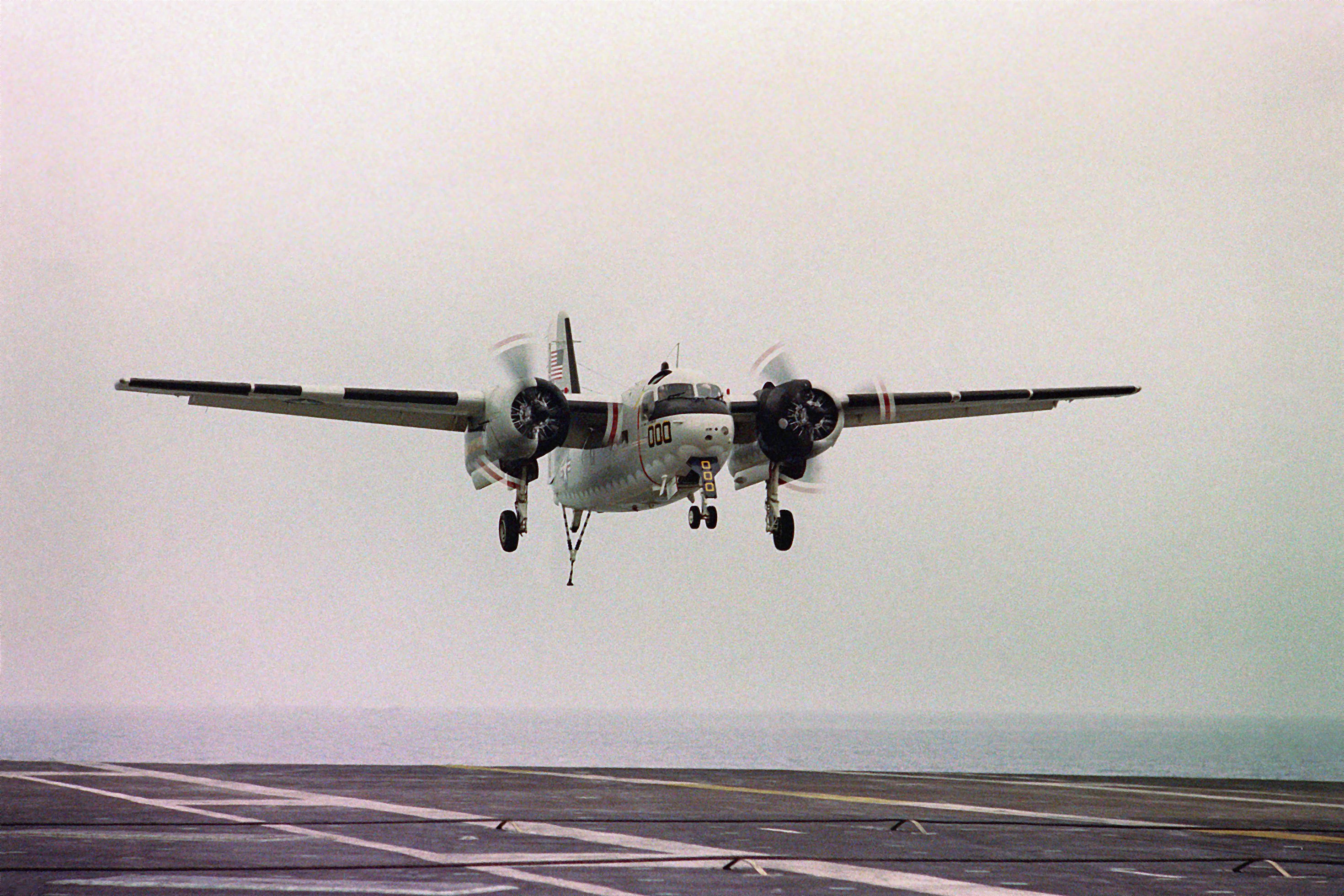 A C-1A Trader cargo/transport aircraft approaches for landing aboard the aircraft carrier USS KITTY HAWK (CV 63). The tailhook on the aircraft is down to catch the arresting gear on the flight deck of the carrier.